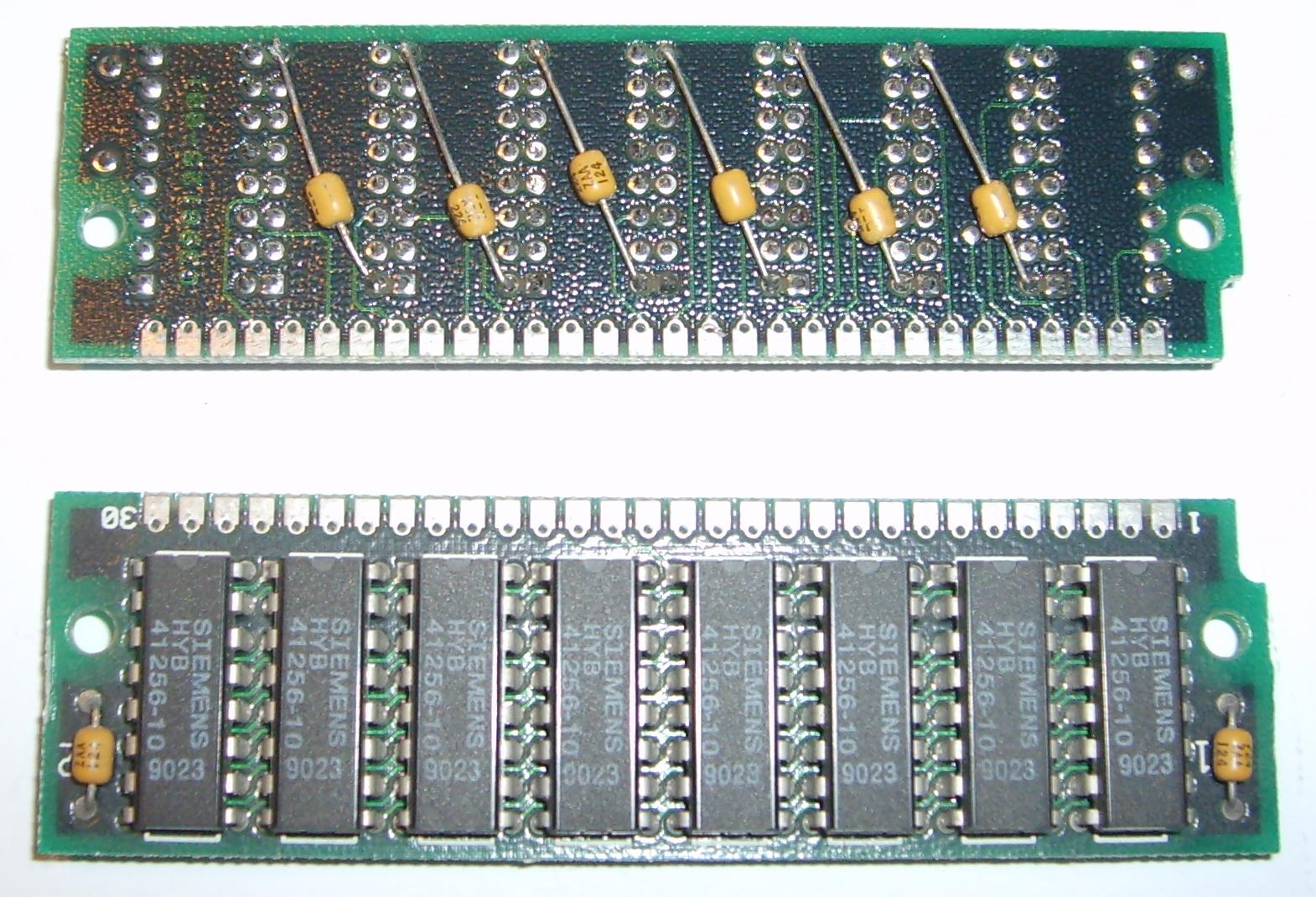 256kB RAM memory (30 pin SIMM), taken from my (very) old Atari STE. It's dimension is 88x26mm.